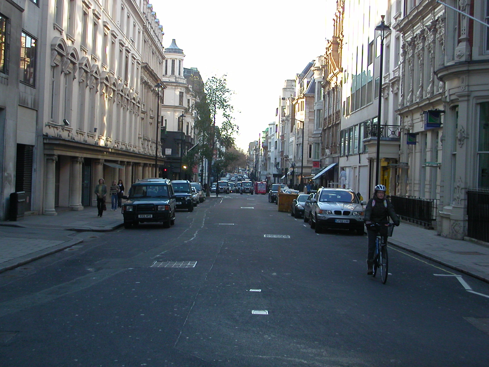 Westward view of Brook Street, London, from a position close to Hanover Square. Photographed on 16th December 2006.